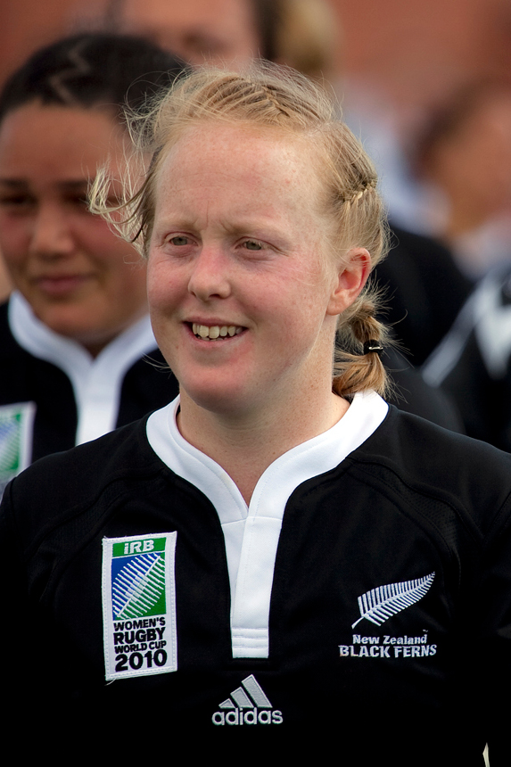 New Zealand rugby union player Kendra Cocksedge at the 2010 Women's Rugby World Cup in England